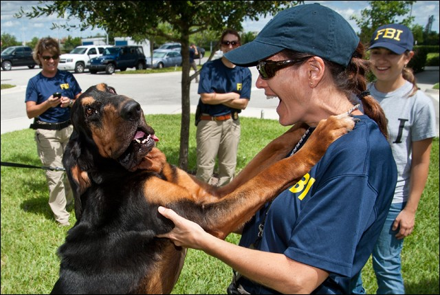 "Members of the Evidence Response Team in our Jacksonville Field Office get acquainted with Montana, a bloodhound used by the FBI for tracking down suspects by scent."